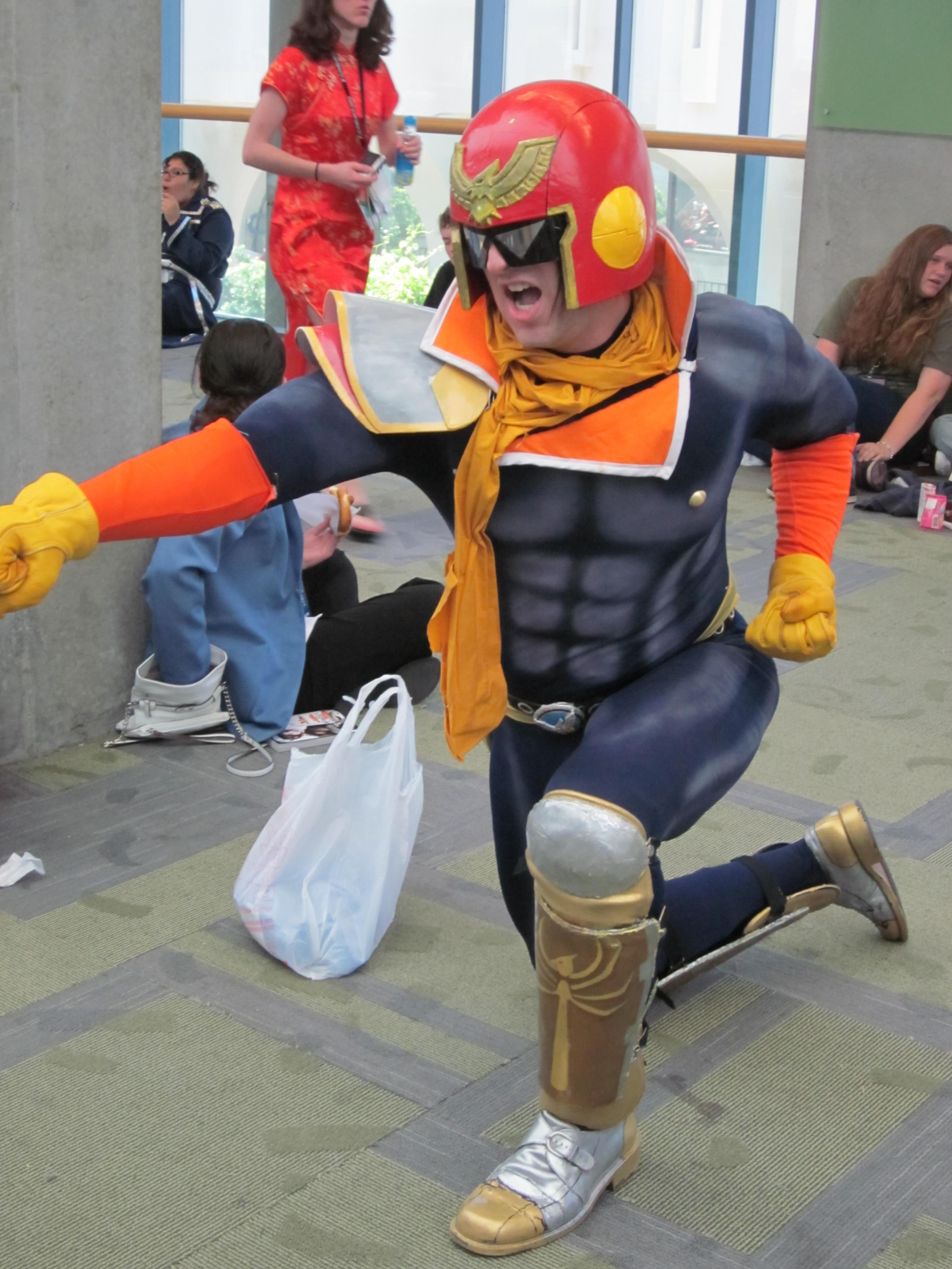 A cosplayer portraying Captain Falcon from F-Zero at FanimeCon 2010 in San Jose, California.